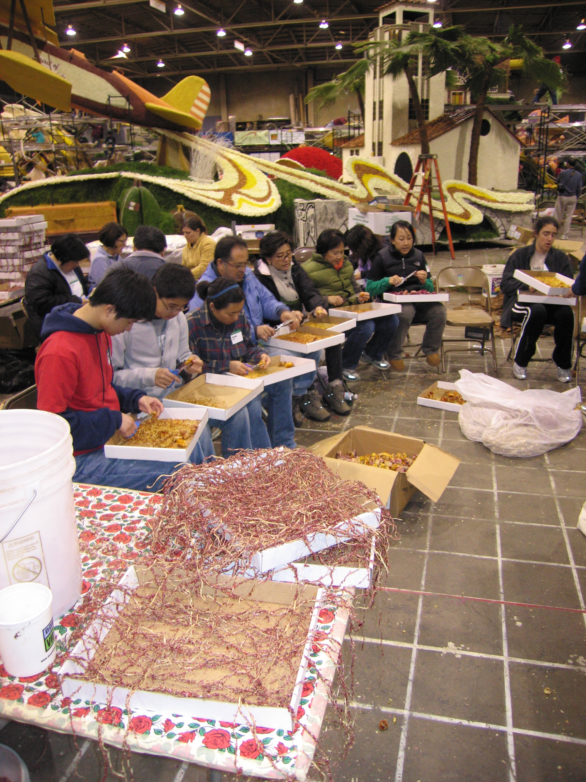 Tournament of Roses volunteers prepping flowers